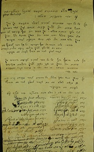 Wilna Statement